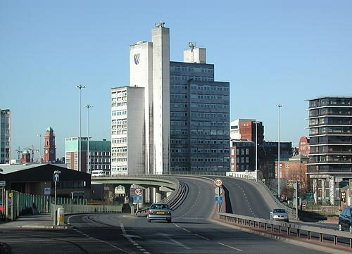 A photo of the Mancunian Way with UMIST in the background.